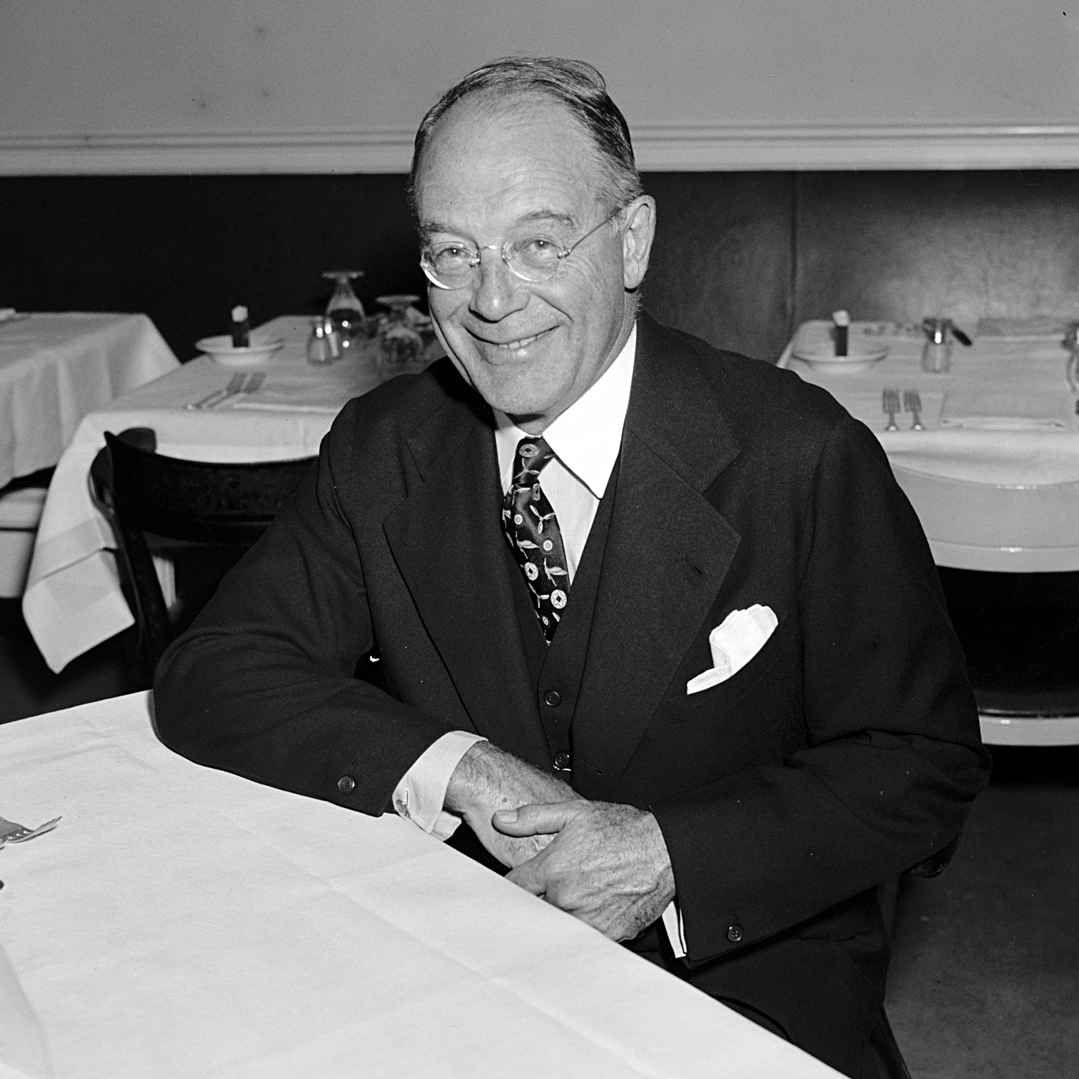 Charles S. Dewey, US Representative from Illinois